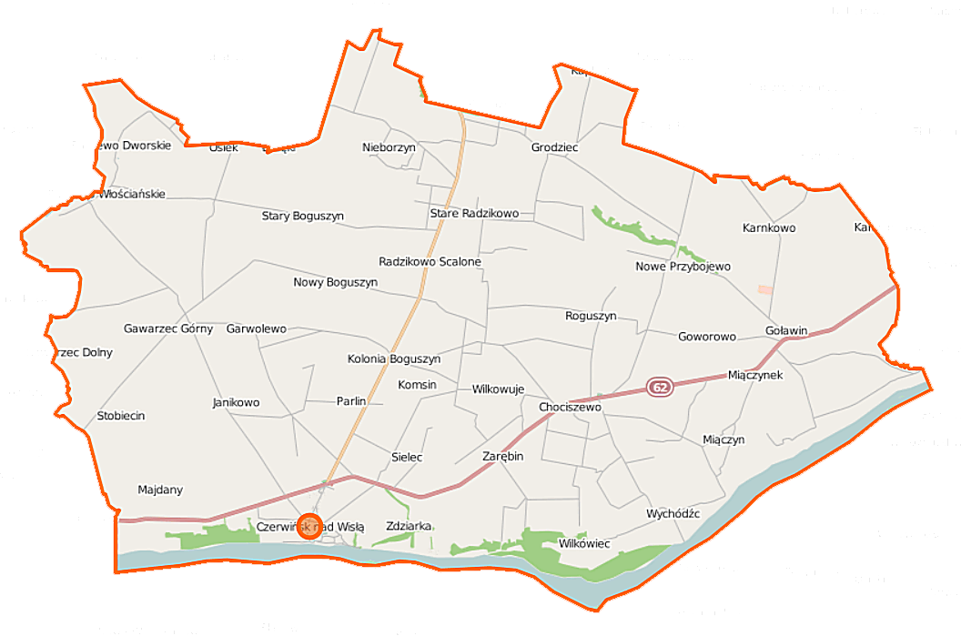 Map of Gmina Czerwińsk nad Wisłą, Poland This map of Czerwińsk nad Wisłą (gmina) was created from OpenStreetMap project data, collected by the community. This map may be incomplete, and may contain errors. Don't rely solely on it for navigation. Border coordinates52.493720.2162←↕→20.505352.3769